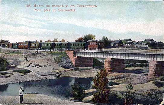 Liteiny bridge in Sestroretsk (Russia). 1900s photo